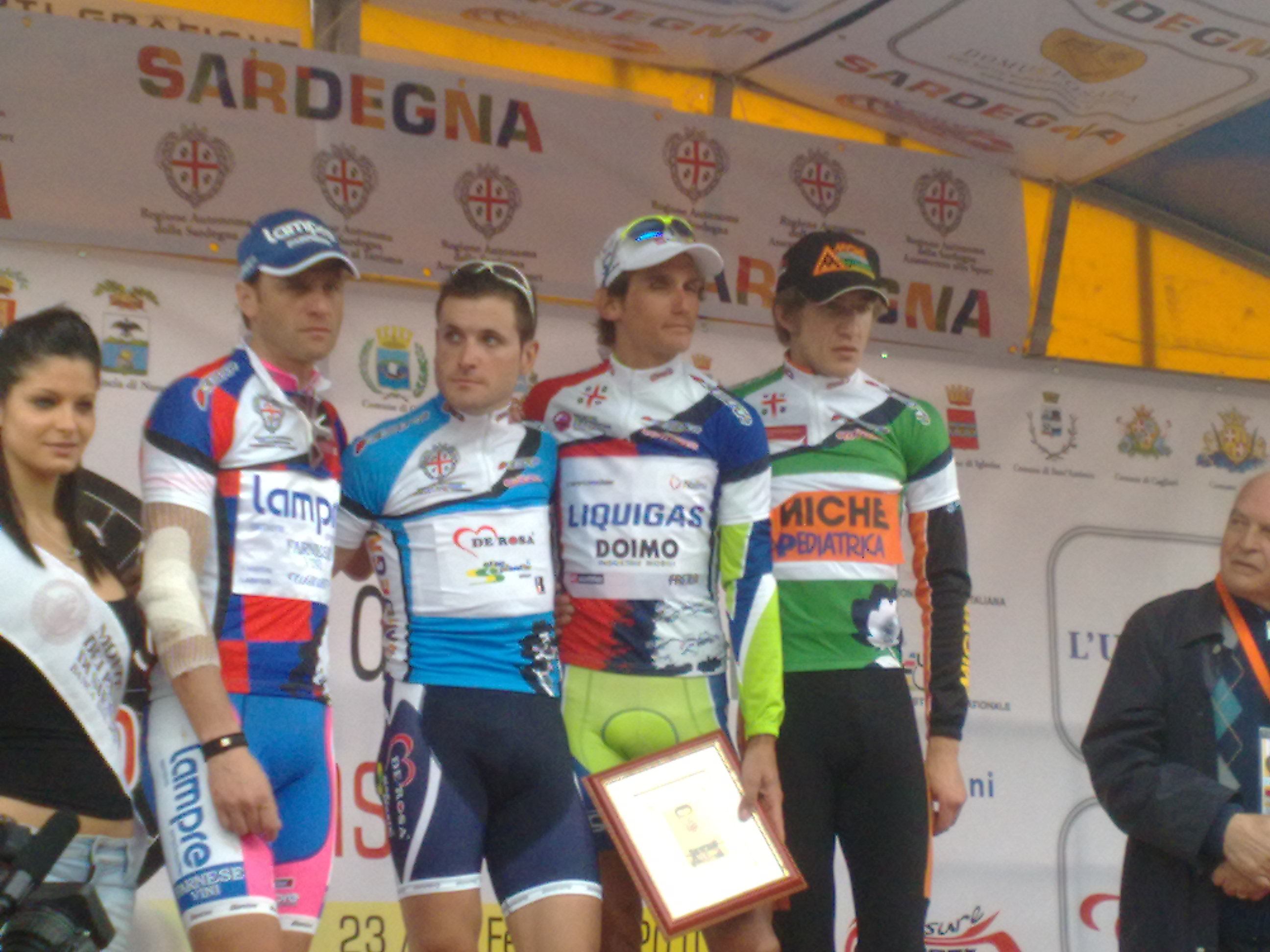 Shirts of the Tour of Sardinia (cycling)